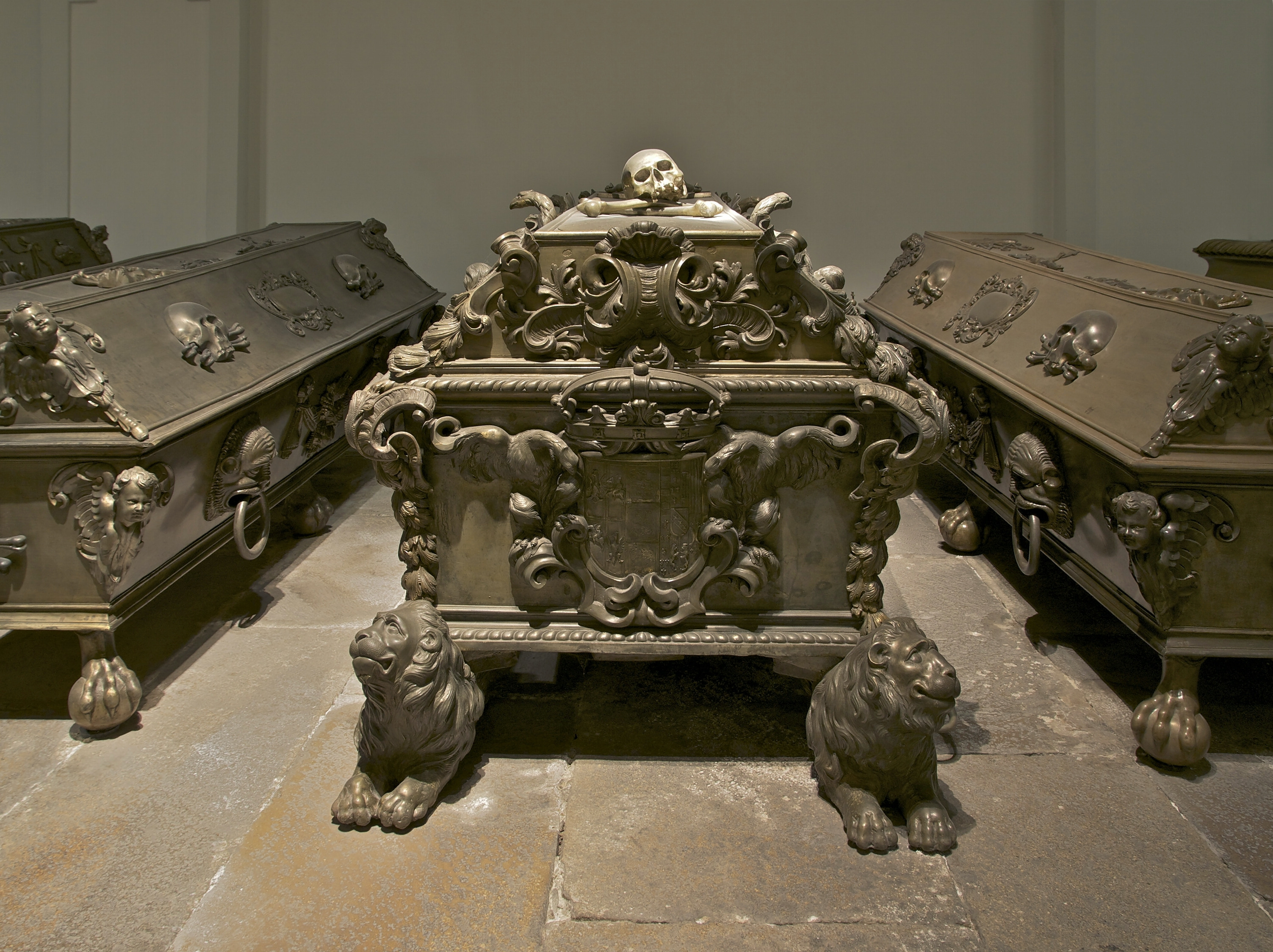 Sarcophagus of archduchess Eleonora Maria (1653-1697), sister of Emperor Leopold Ist, daughter od Emperor Ferdinand III and Eleonora of Gonzaga, wife of king Michael Ist of Poland, then of Duke Charles V of Lorraine. Kapuzinergruft, Vienna, Austria.